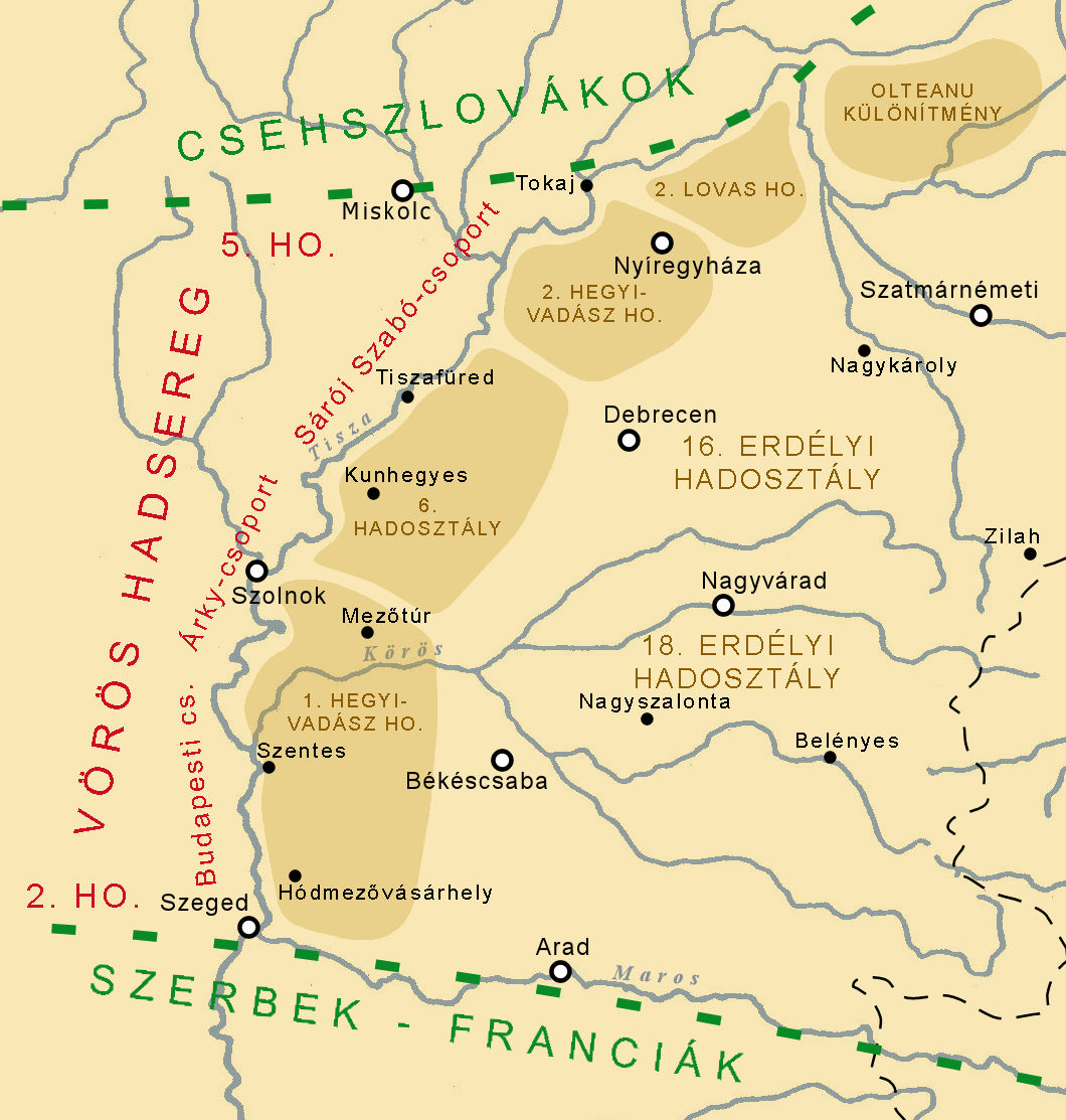 Hungarian-Romanian War of 1919, the opposing forces on 3 May (Language:Hungarian)